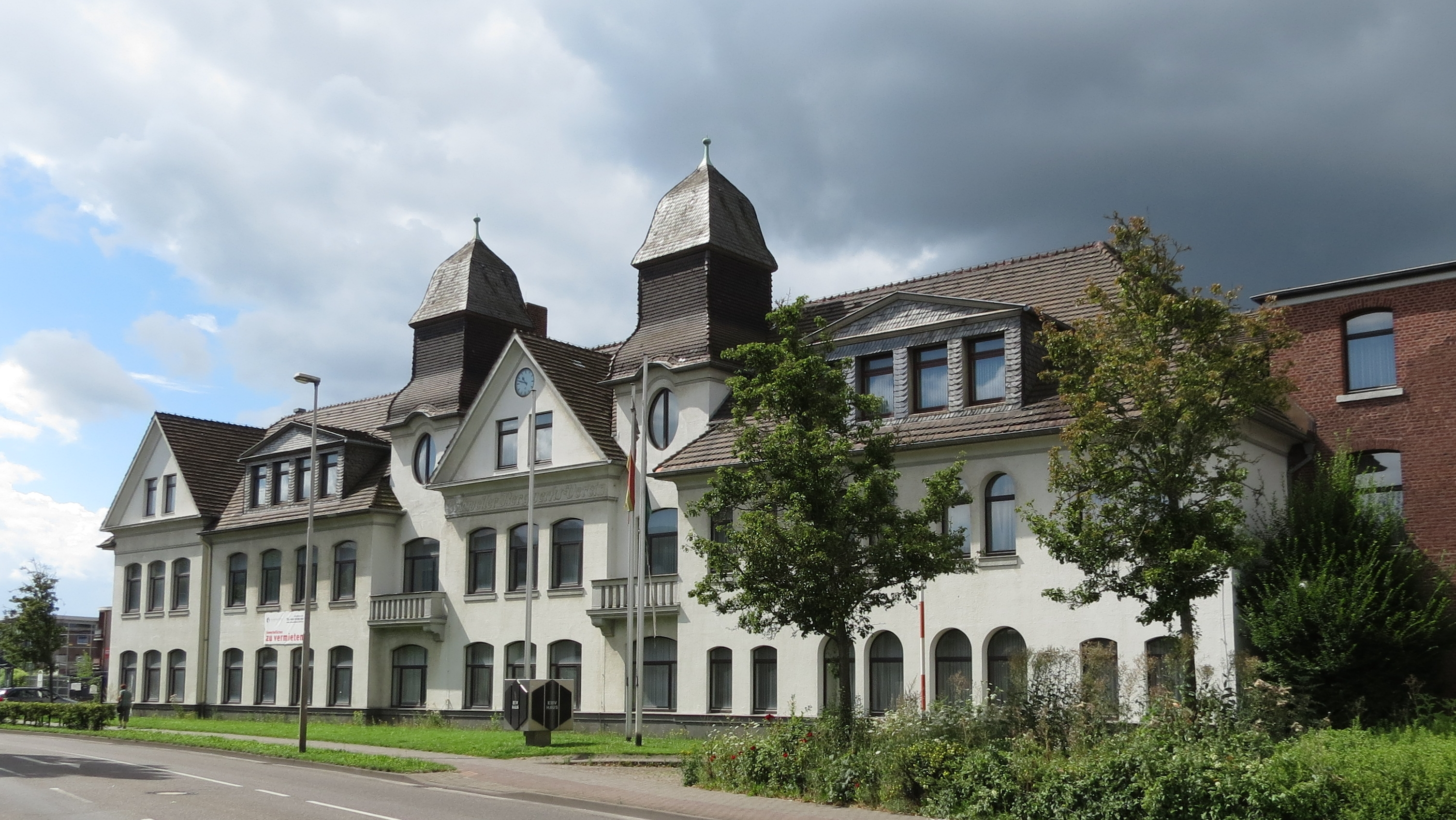 Former headoffice of the Eschweiler Bergwerksverein (EBV) at Roermonderstrasse Kohlscheid, Germany